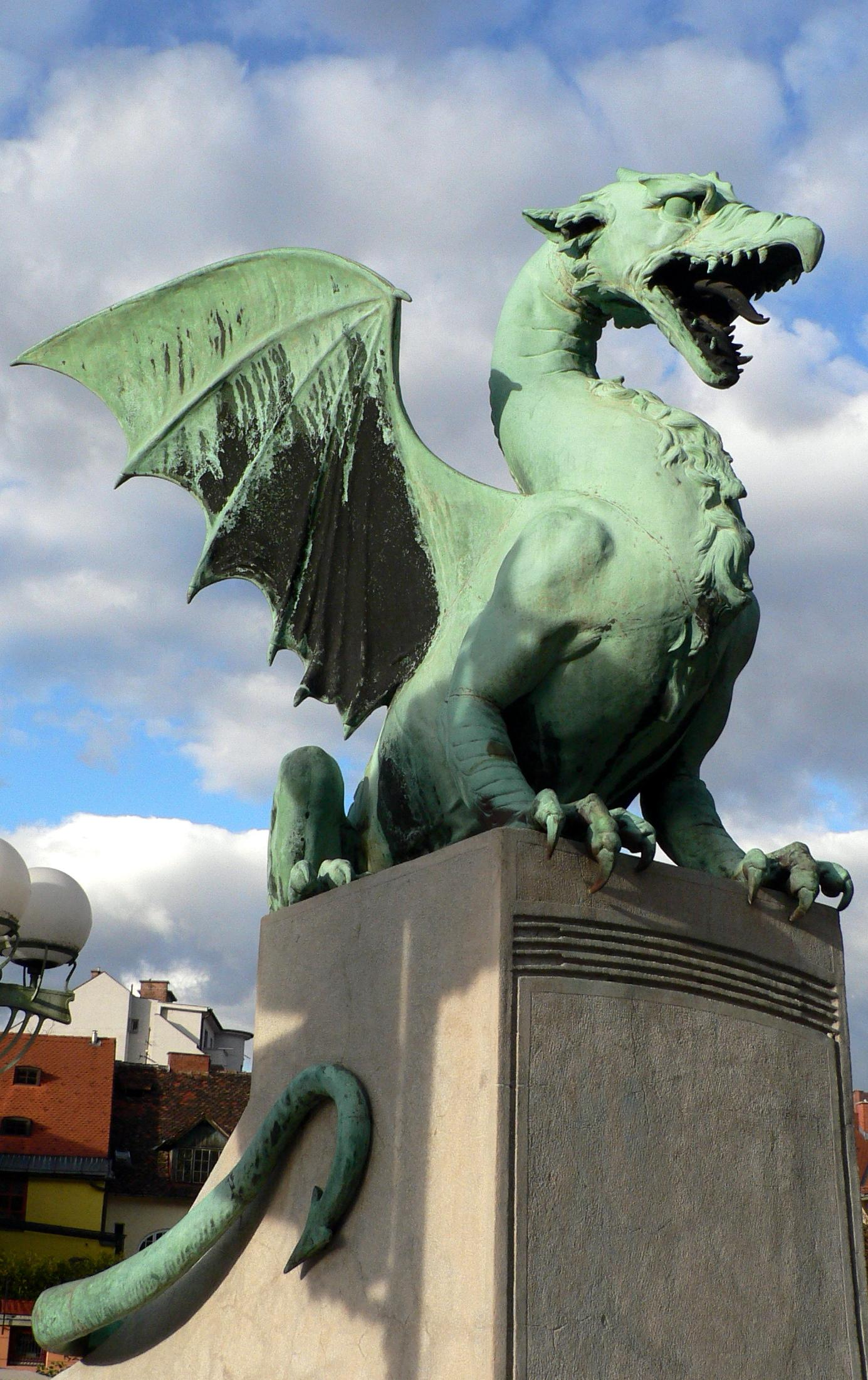 Dragon on Dragon Bridge (cropped version)